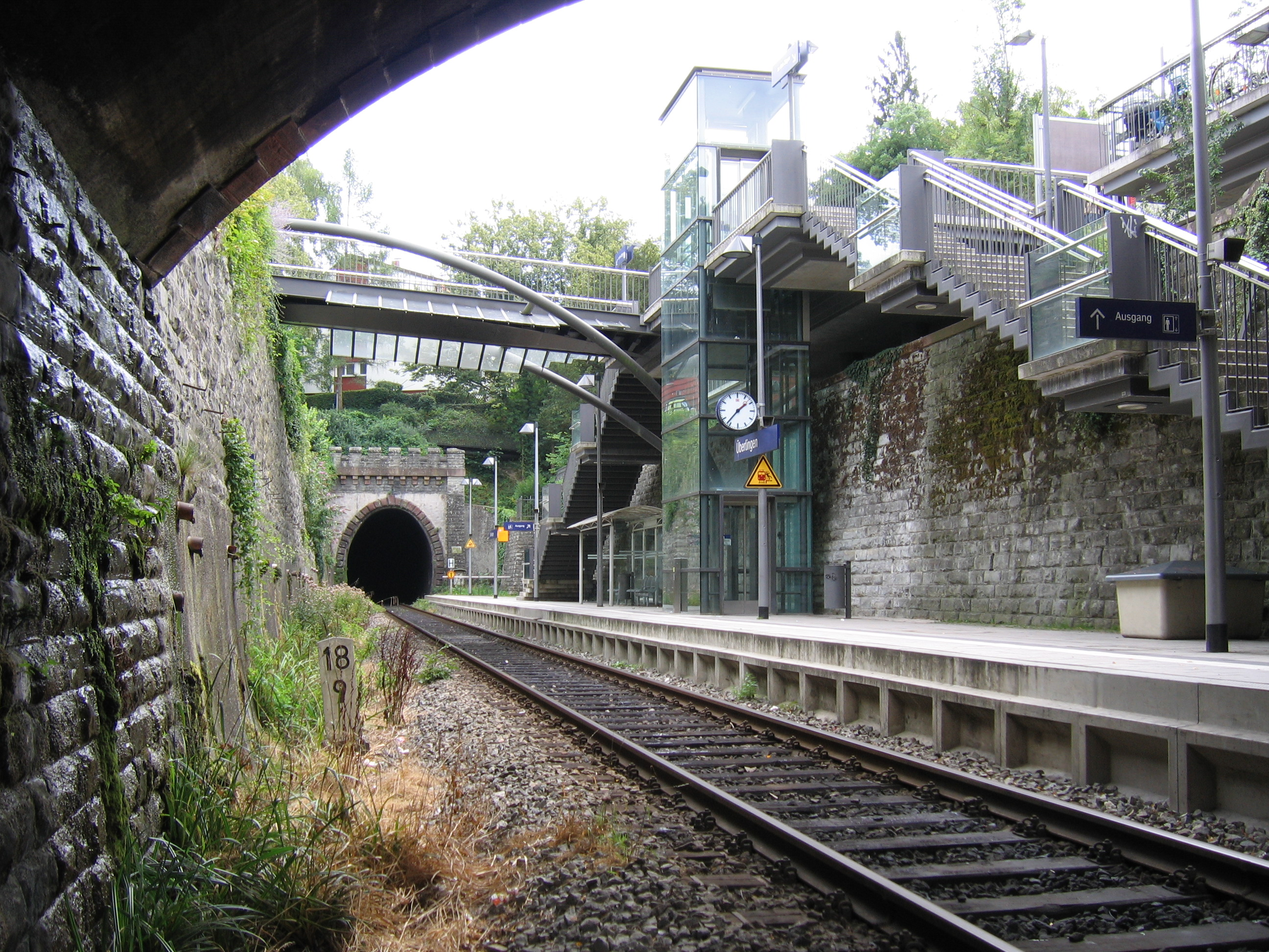 Germany - Baden-Württemberg - Bodenseekreis - Überlingen: train stop 'Überlingen' with tunnel portal (east)